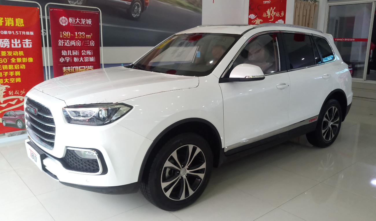 Yema T80 photographed in Wuhan, Hubei province, China.